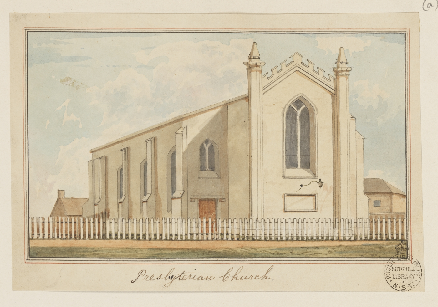 Painting by Frederick Garling of T Andrews Presbyterian Church (1835-1911) depicted here in the 1840s